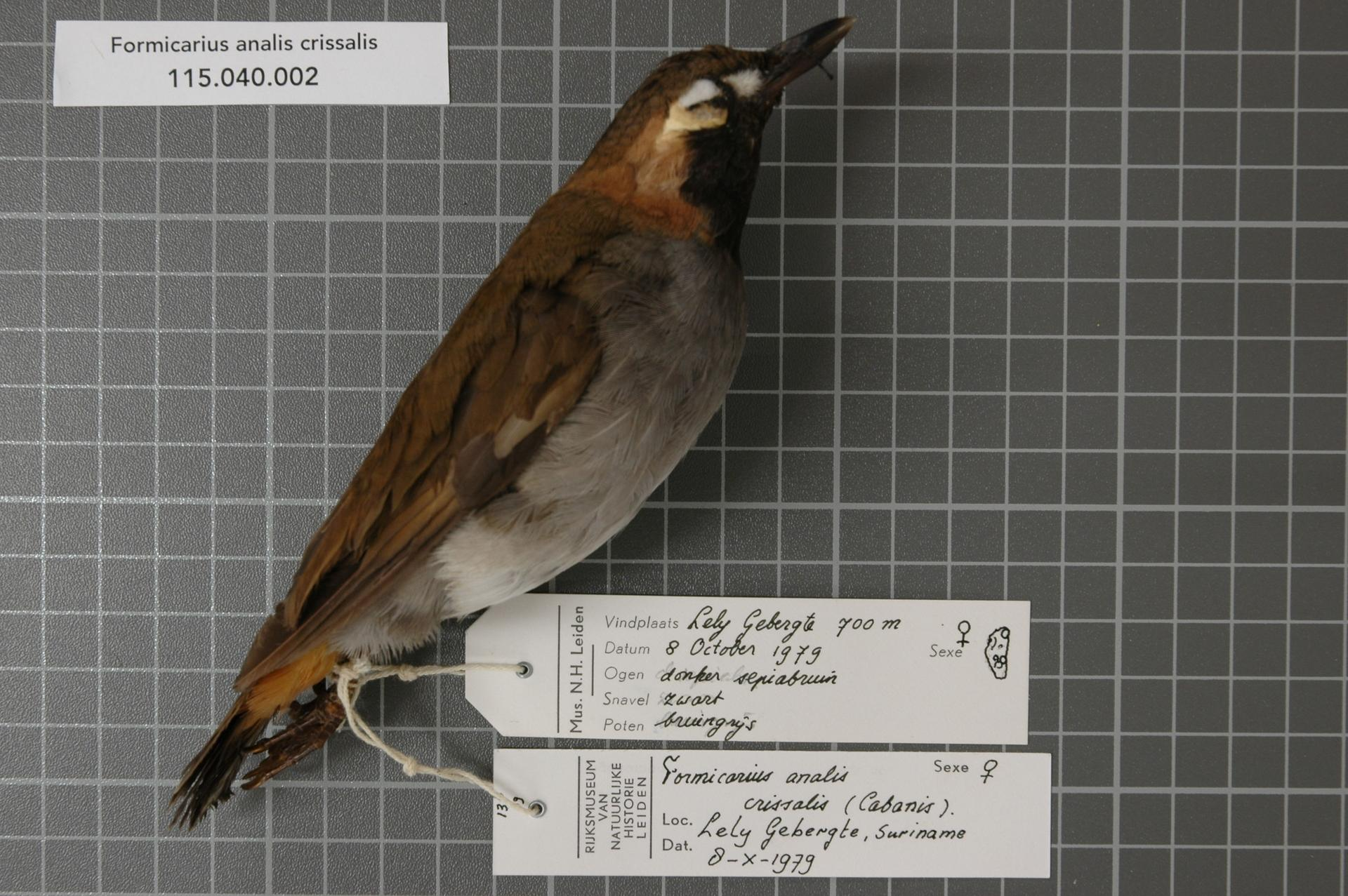 Formicarius analis crissalis (Cabanis, 1861)